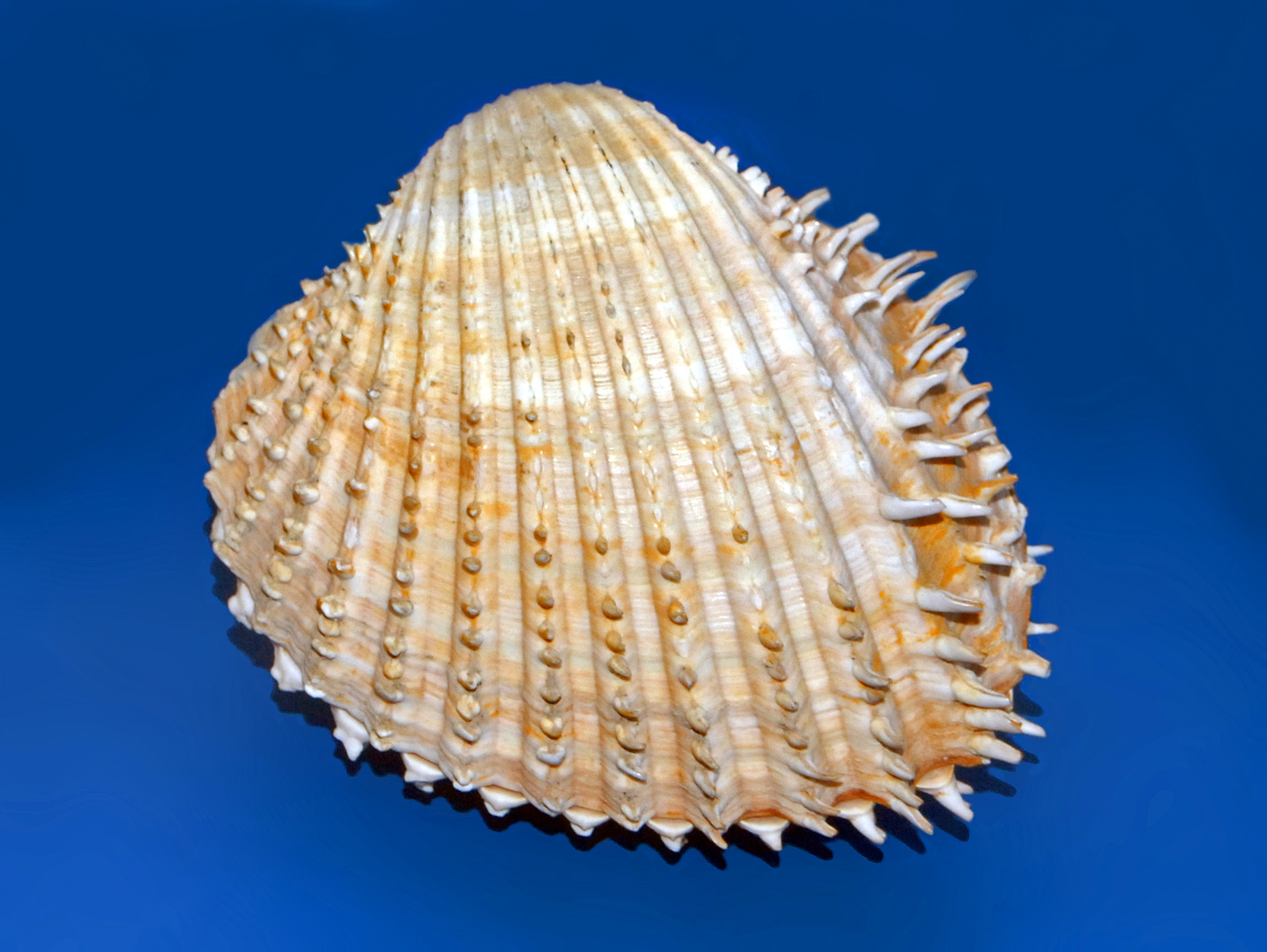 Shell of Acanthocardia aculeata from Sicily at the Museo Civico di Storia Naturale di Milano